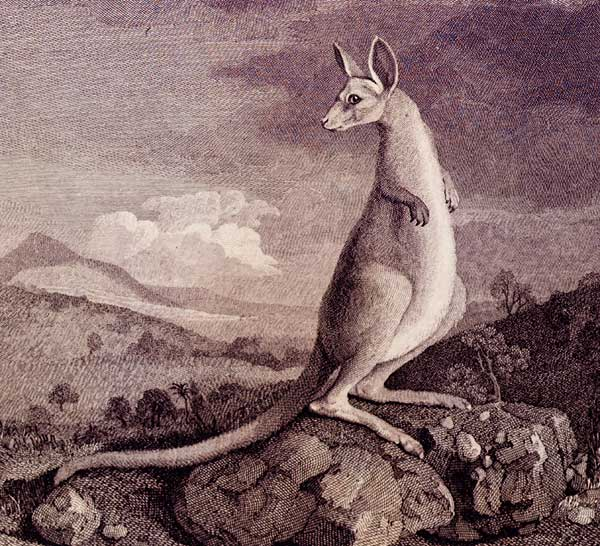 This kangaroo was seen at Endeavour River on 23 June 1770. Sydney Parkinson worked for Joseph Banks before embarking with him on the "Endeavour" in 1768.